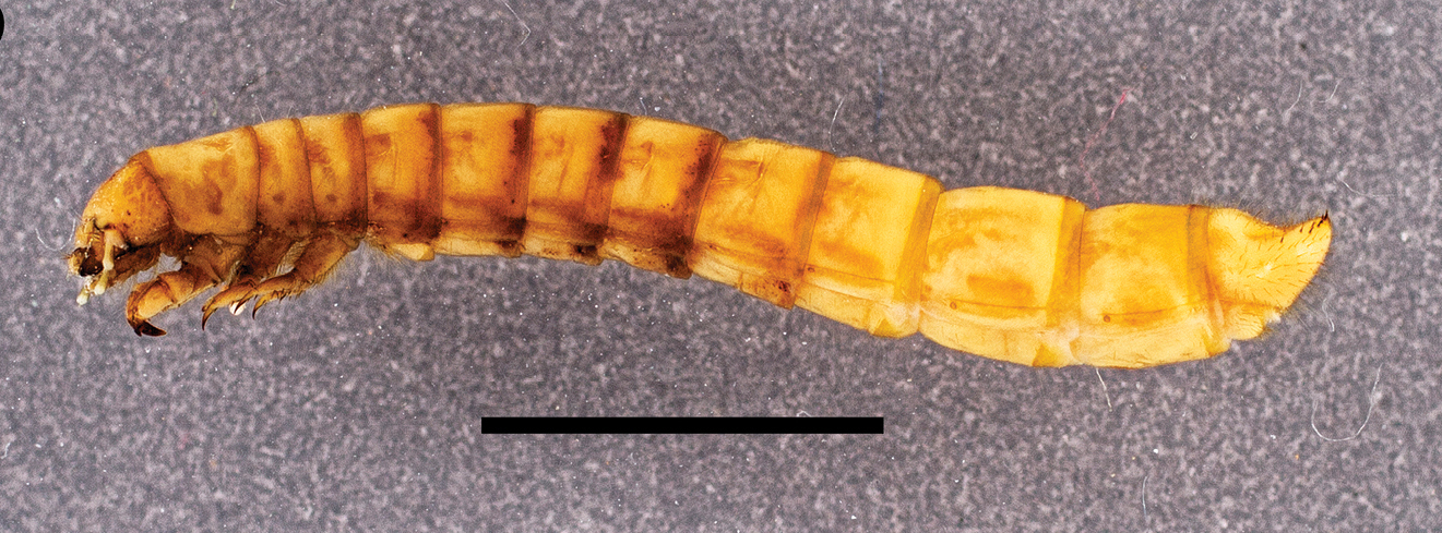 Lateral habitus of Eleodes (Eleodes) tribulus larva. Scale bar = 5 mm.